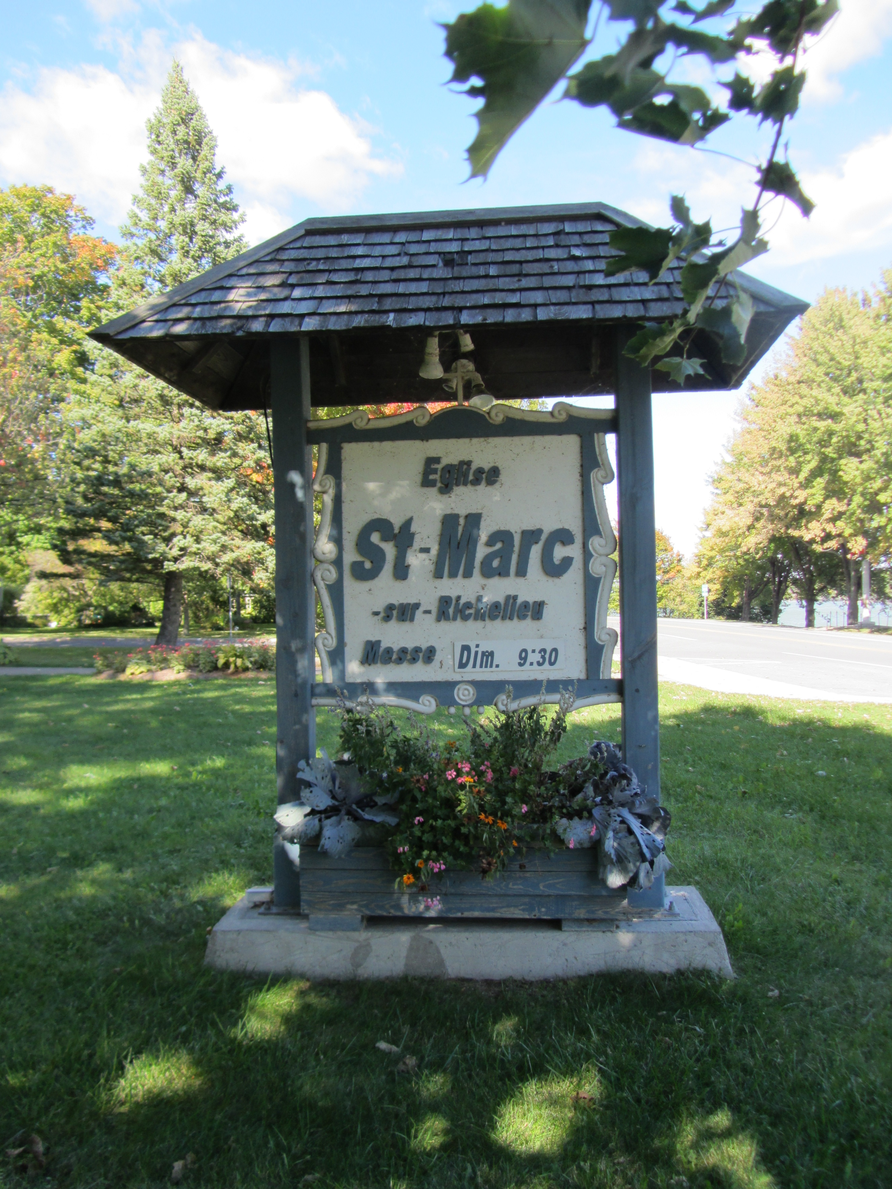 Church Sign, Saint-Marc-Sur-Richlieu, Canada 10 3 2015